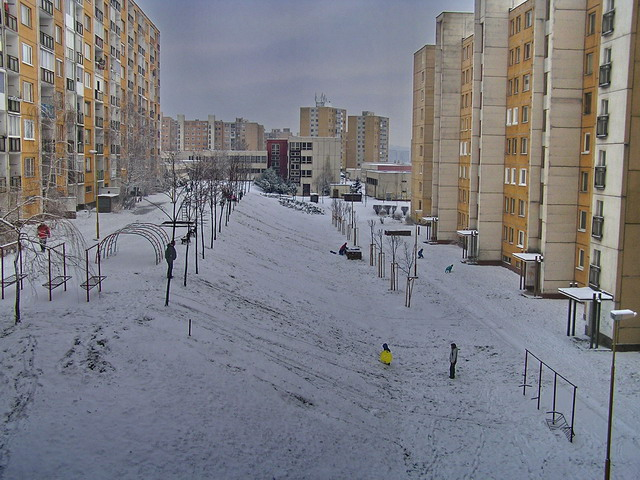 Berlin a Bucharest street